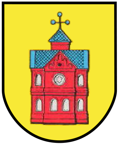 enkenbach coat of arms